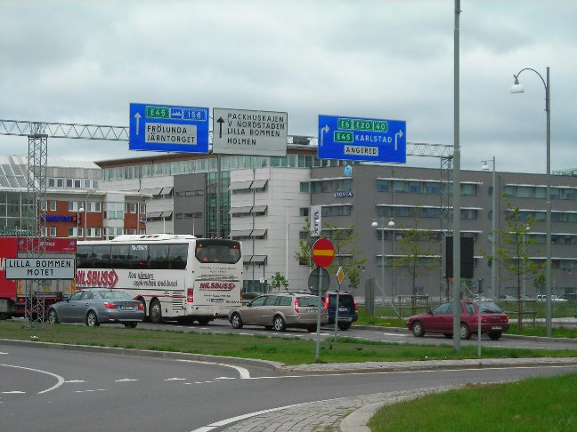 Road sign above Götatunneln eastern entrance. One of the first signs with E45 extension.